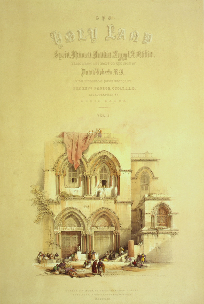 "Entrance to the holy sepulchre". Title page from: The Holy Land, Syria, Idumea, Arabia, Egypt and Nubia / from drawings made on the spot by David Roberts. London : F.G. Moon, 1842-1845, v. 1, pts. 1-2, p. 2.